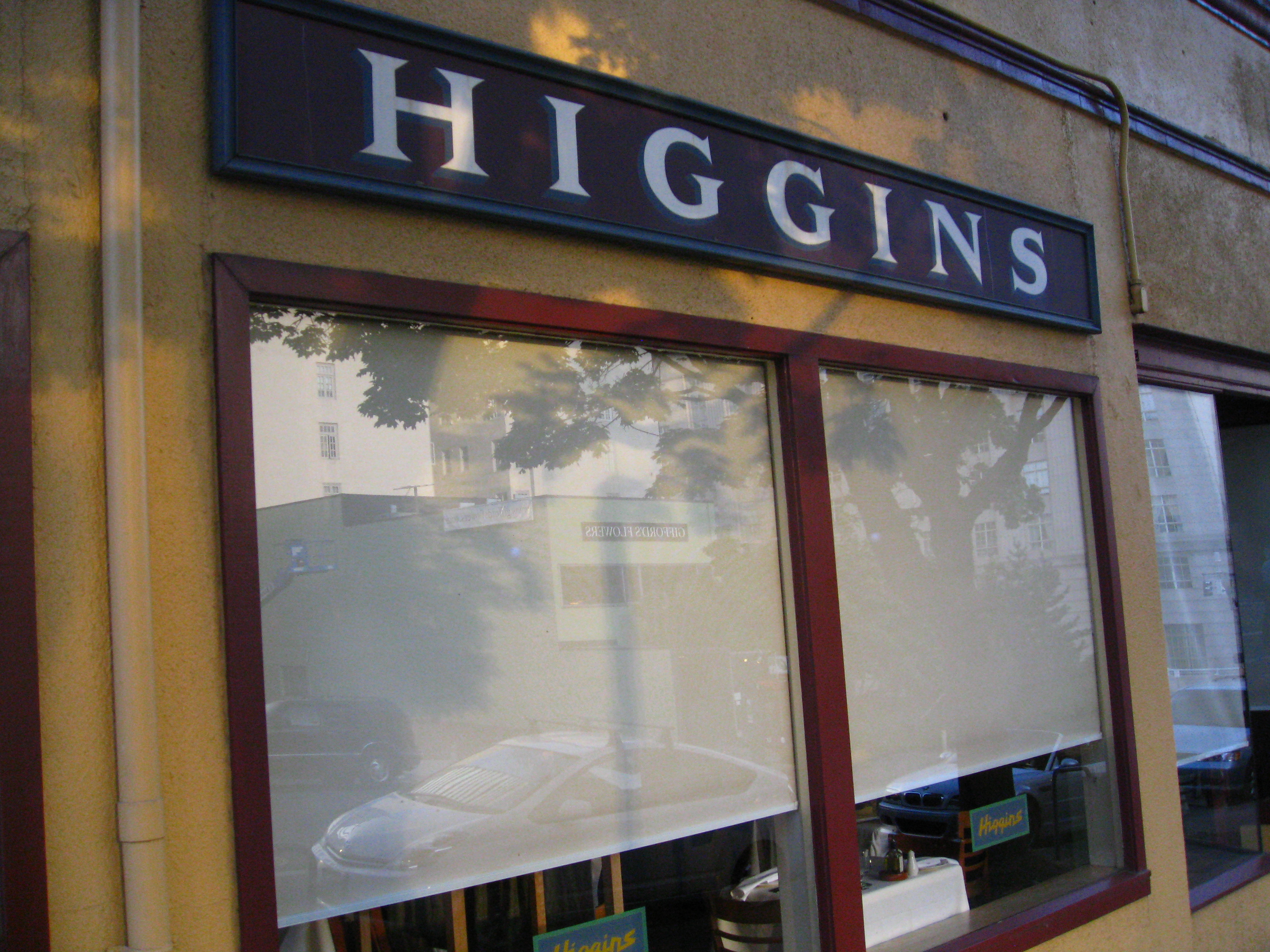 Sign for Higgins restaurant in Portland, Oregon